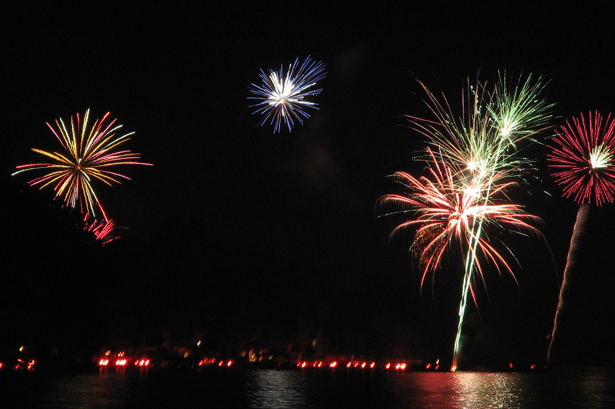 The Ring of Fire is a tradition at Conesus Lake in New York; every July 3, lake residents light up road flares and set off fireworks.